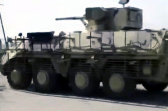 BTR-4 with BM-7 during ATO in Donbass.